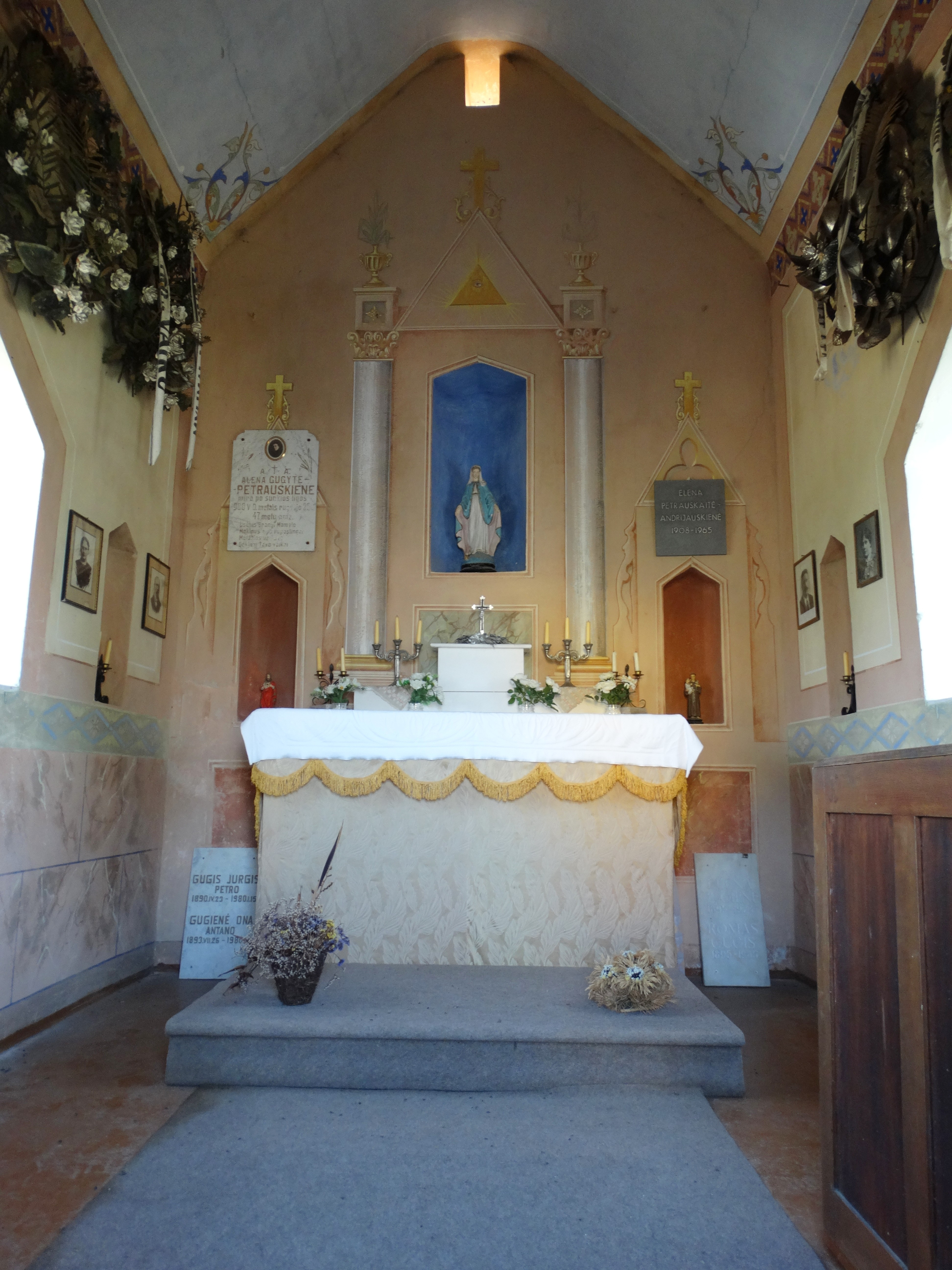 Cemetery chapel, interior, Paliepiai, Raseiniai District, Lithuania